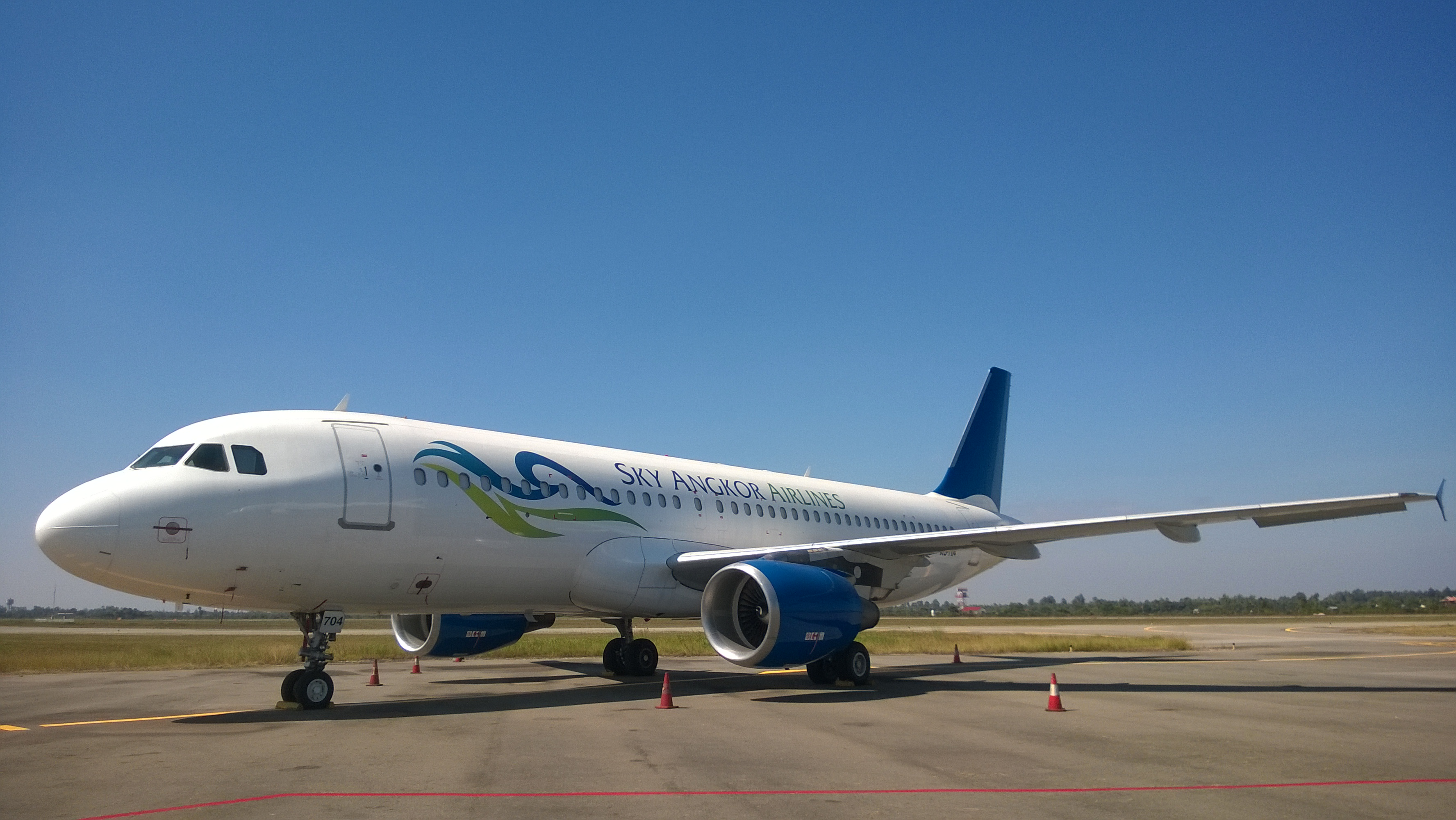 Sky Angkor Airlines A320